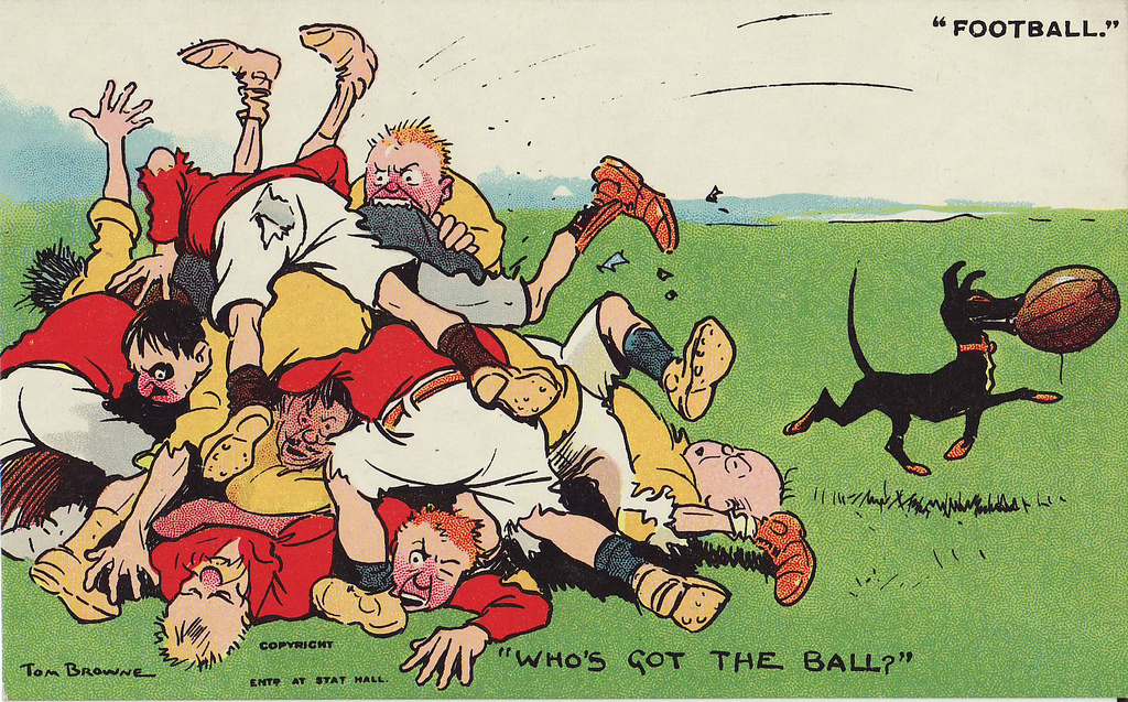 Illustration - "Who's got the ball"